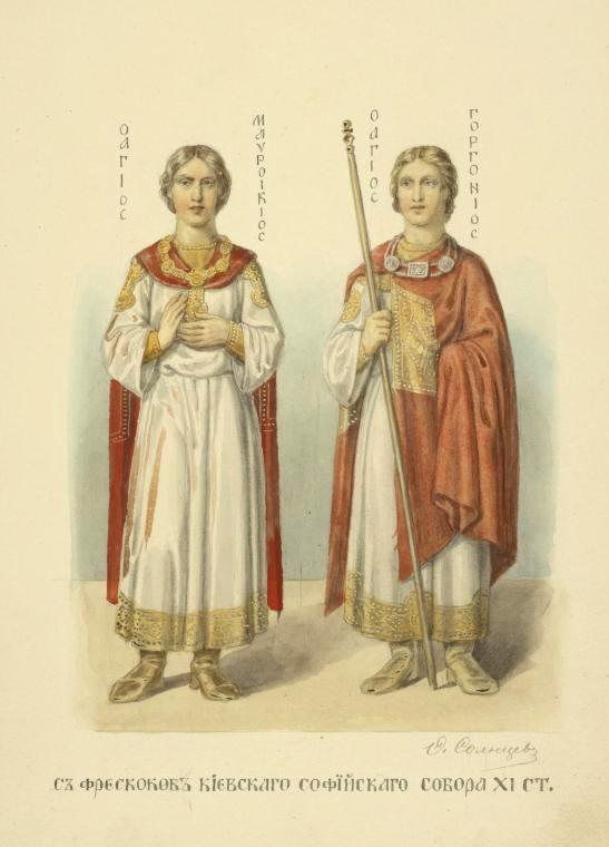 Ancient russian clothes. From frescos in Sofia's cathedral in Kiev. XI century.